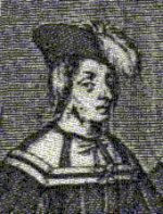 François de Bourbon, comte de Vendôme (1470 – 1495)